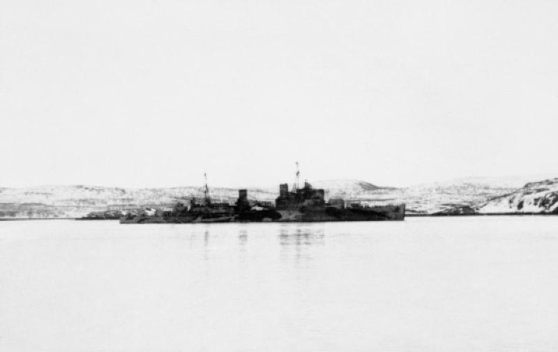 The British cruiser HMS TRINIDAD under repair in the Kola Inlet at Murmansk. She was struck by her own torpedo in action against the German destroyer Z26 on 29 March 1942.